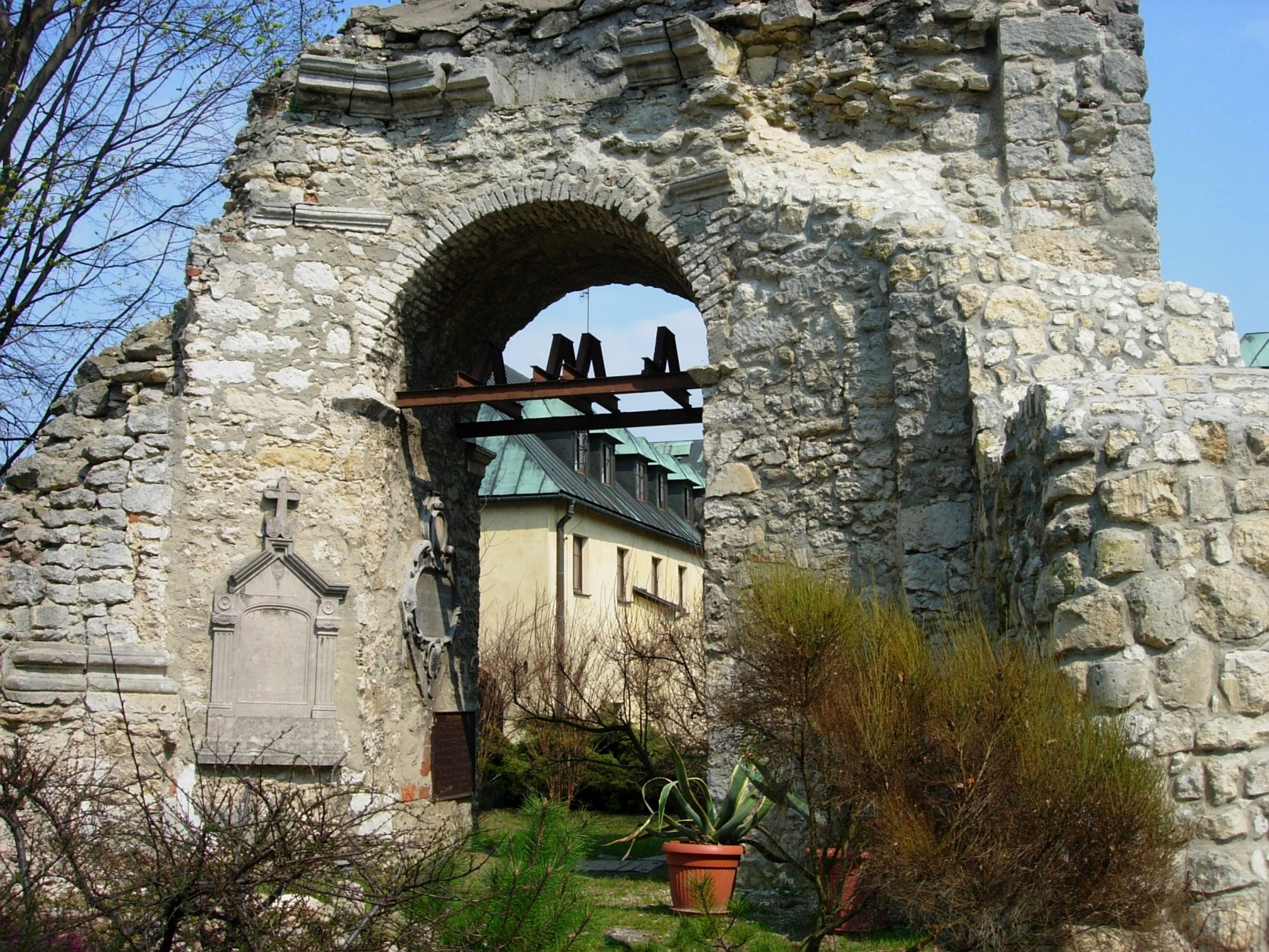 Stopnica, monastery; the remains of the church destroyed during World War II